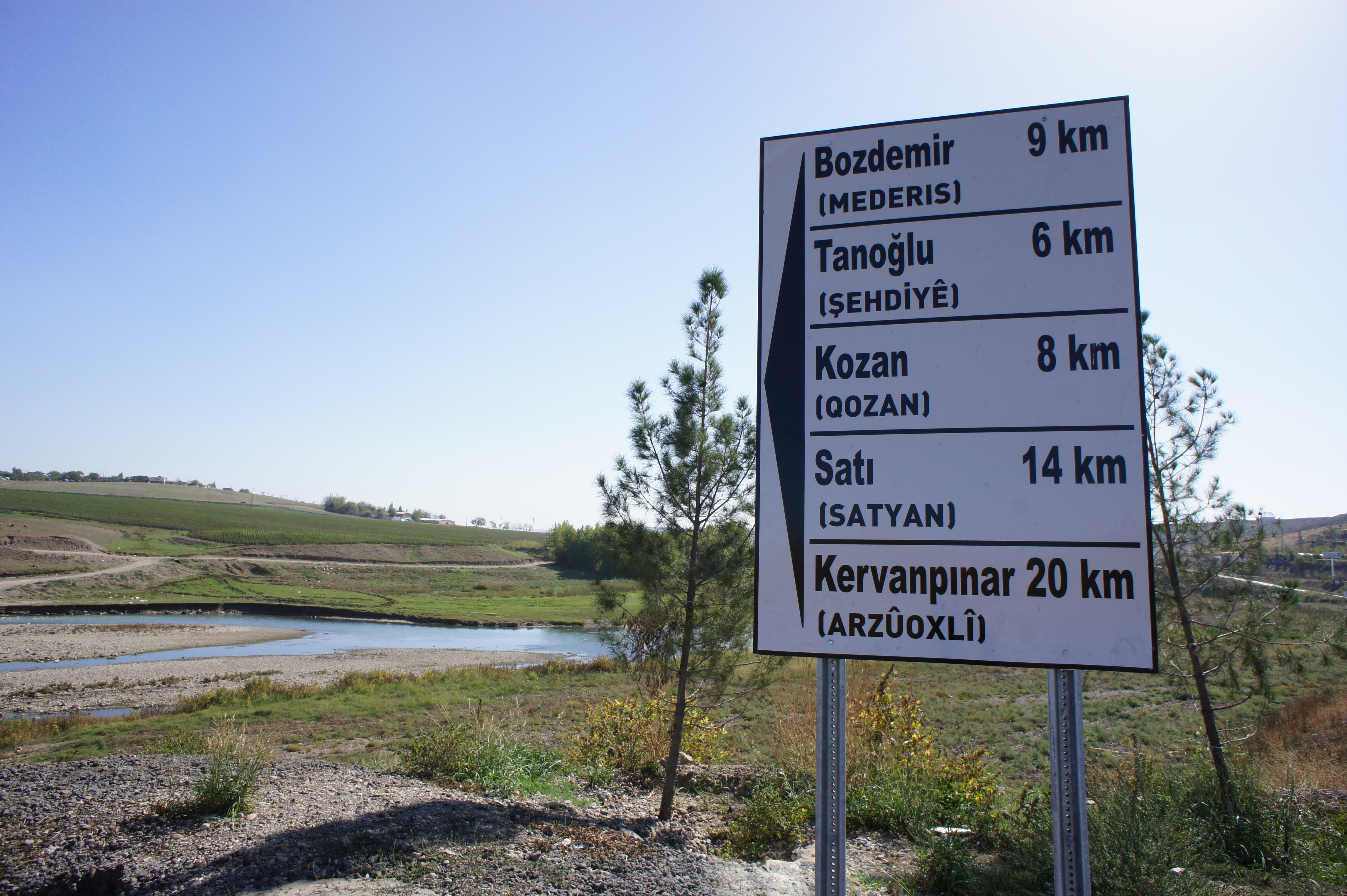 Road signs near Amed/Diyarbakir showing the place names in Turkish and Kurdish. Kurdî: Tabelayên riyê nêzîkî Amedê ku navên gundan bi tirkî û kurdî nîshan didin.